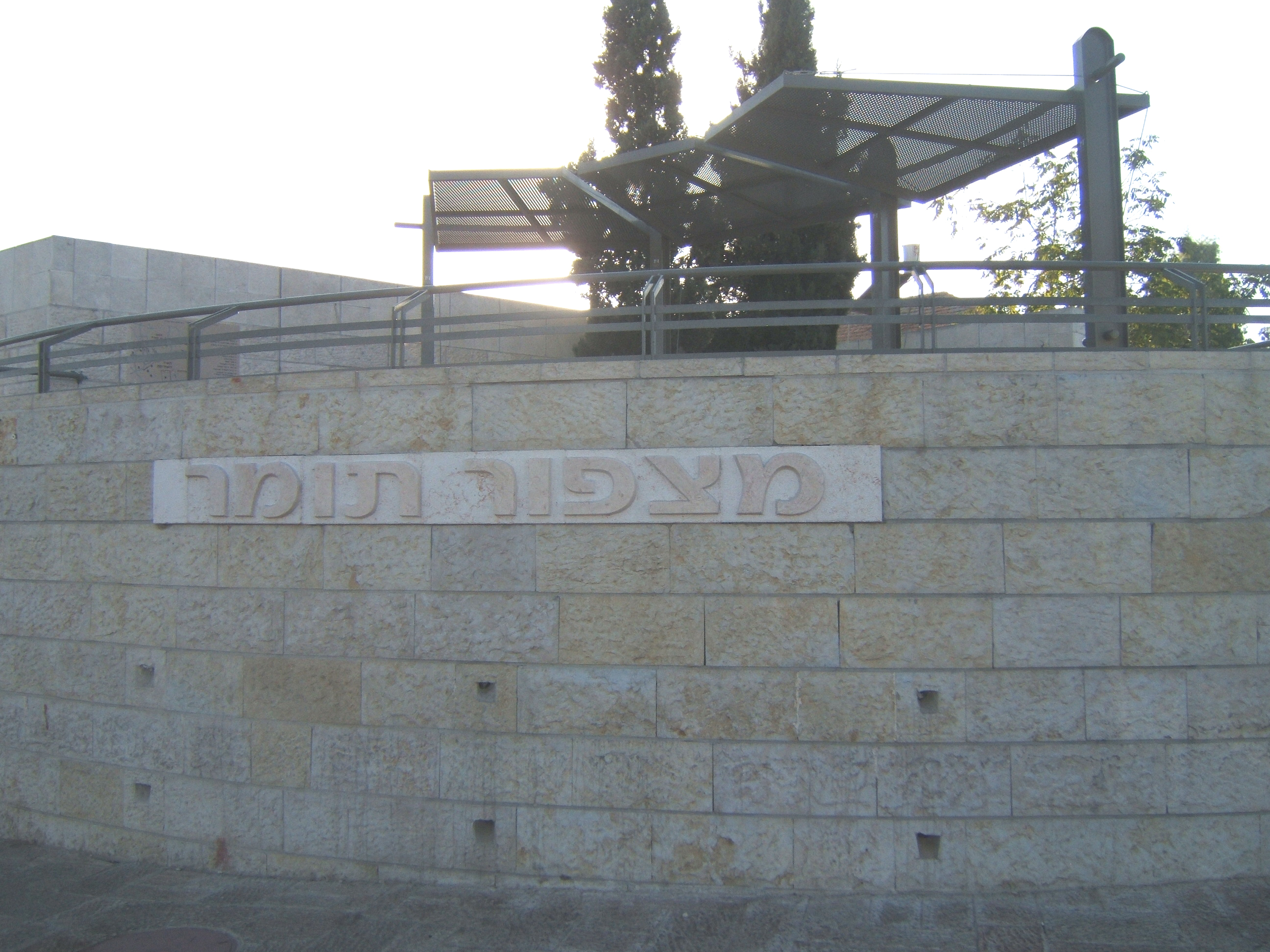 Mitzpor Tomer, Street of Prophets, Jerusalem